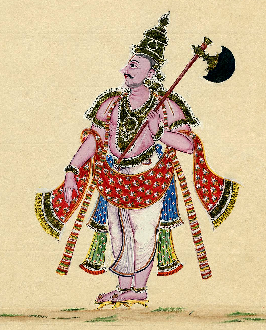 "Painting of Parasurama. He is shown crowned, two-armed and wearing sandals. Over his left shoulder he carries his defining weapon, the axe. An impression of perspective is provided by a lightly sketched-in foreground. On laid European paper watermarked with an armorial design and the letters 'W T'."Description from source: "From a portfolio of sixty-three paintings of deities and daily life. Paraśurāma, on whose forehead is Vaishnava Namam (emblem), is recognizable by the large parashu (axe) resting on his left shoulder, while his right hangs loosely by his side. His bulky figure is enhanced by the shading on his neck, chest and stomach. An angavastra (shawl) is draped over his elbows."